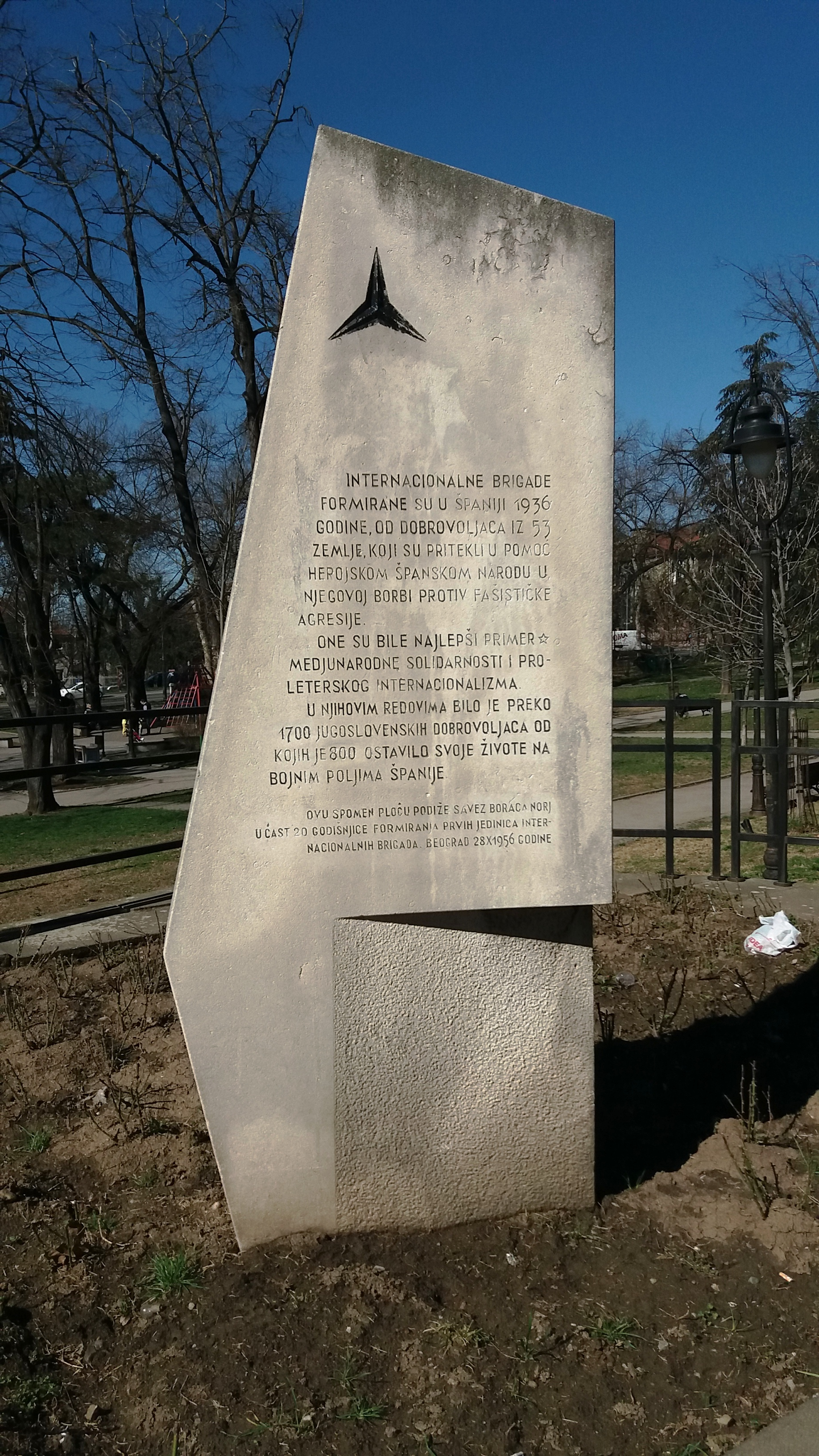 Monument to the International Brigades formed in Spain, Park of Karadjordje, Belgrade